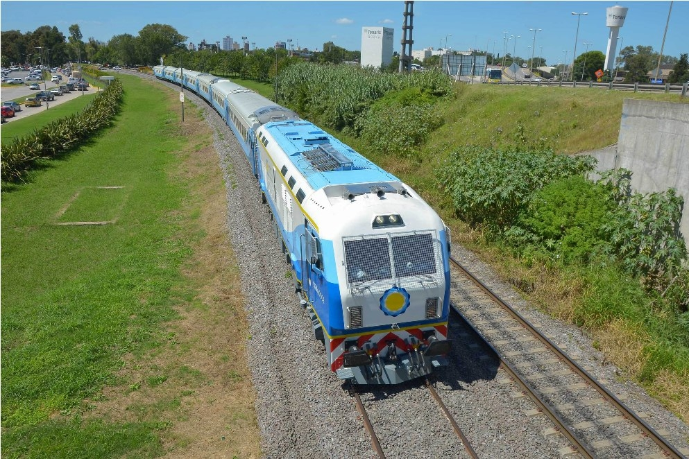 A CNR CKD8 long distance Ferrocarriles Argentinos train on the General Mitre Railway.